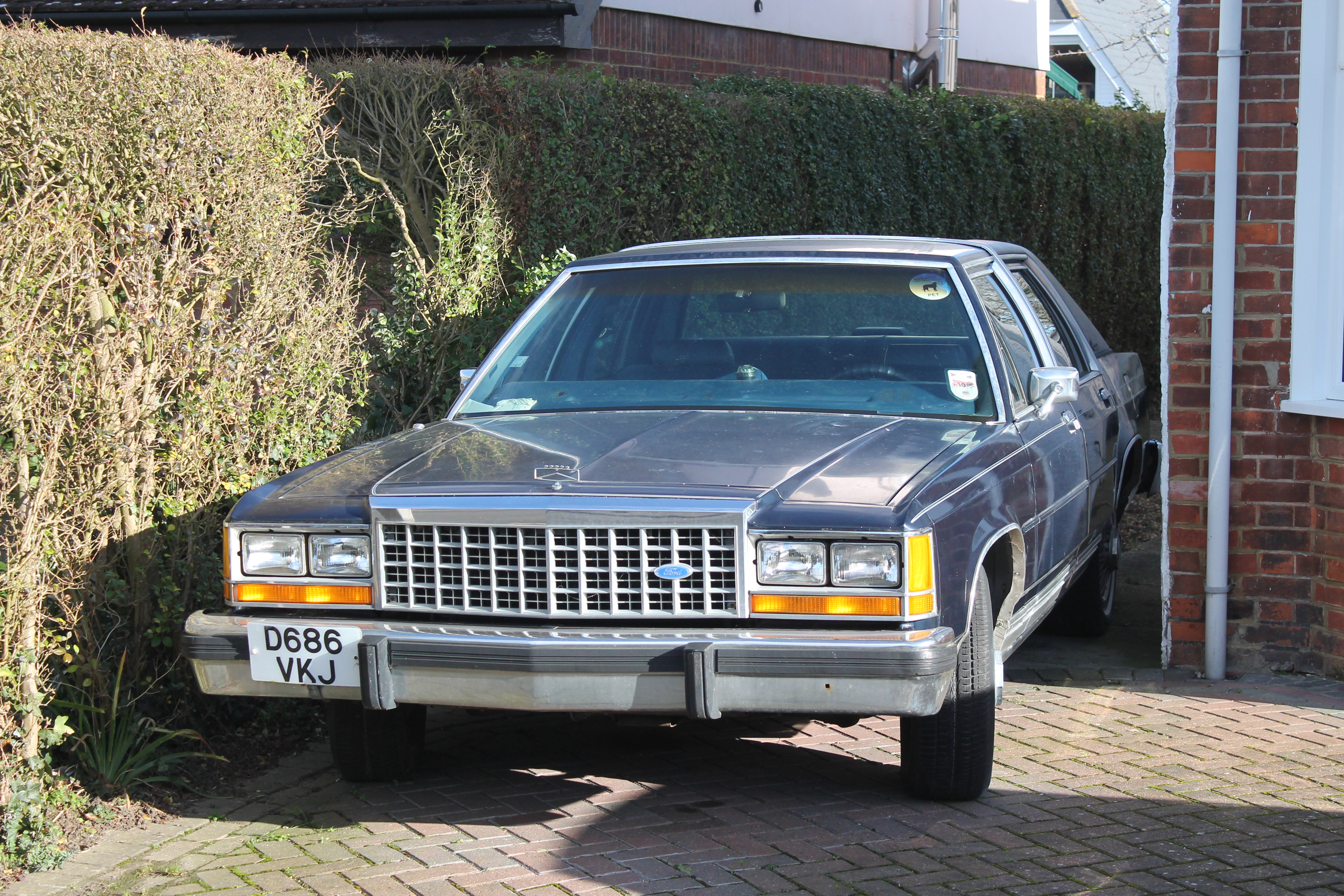 Lovely to see a proper big old American car. I've seen so many as police cars in American films, it was great to see one in the flesh and in the UK. Can't imagine it's too easy to find them outside shows, and even in shows I don't think there's a lot. I love the very square styling! Registration number: D686 VKJ ✔ SORN ✗ No MOT Expired: 28 August 2008